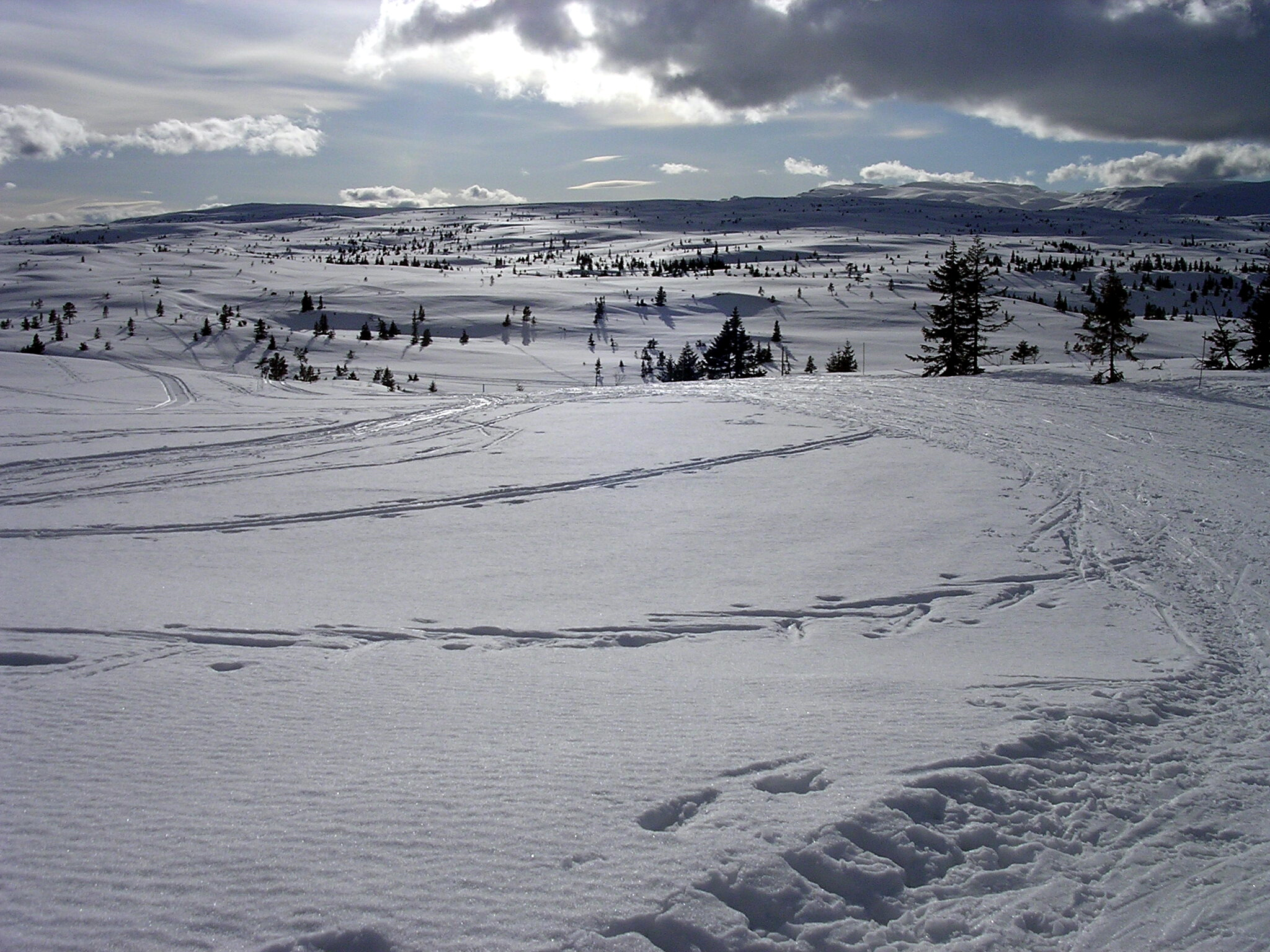 The mountain range Blefjell in the southern part of Norway. Picture is taken near the cottage Strutåsen.